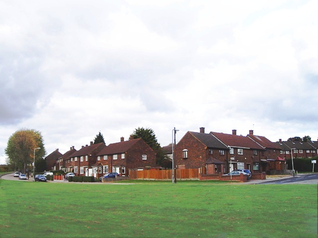 Harold Hill Estate, Romford Harold Hill was a large 'out-County' housing estate built by the London County Council during the early 1950s on a green field site in what was then Essex. The picture shows the junction of Chudleigh Road (left) and Broseley Road (right).